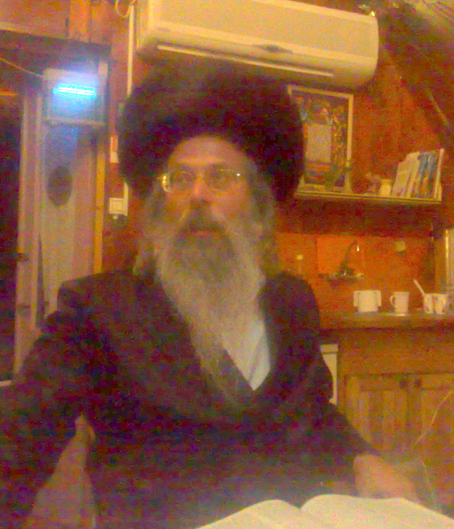 Rabbi Eliyahu Godlevsky, Breslov Hasidism